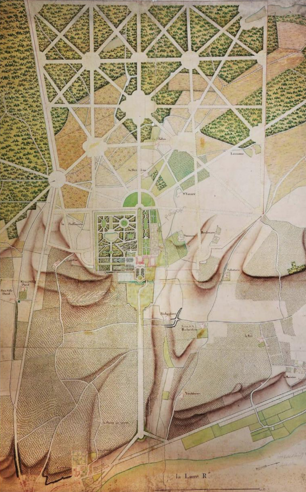 General site plan of 1761 for the domain of Chanteloup (north toward bottom)